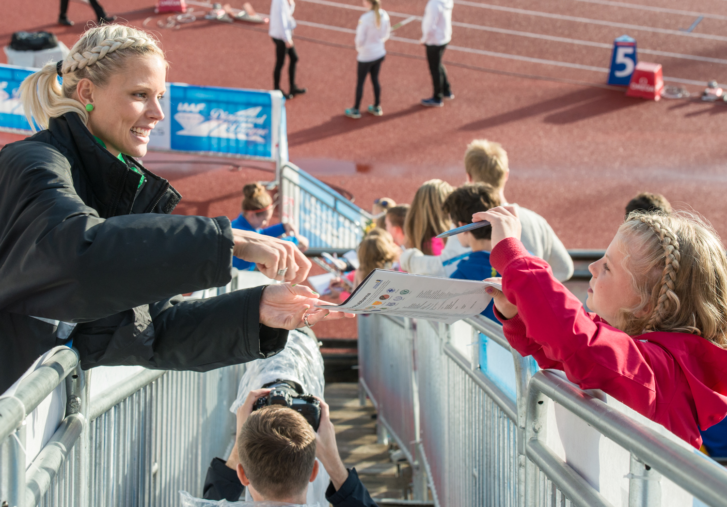 Diamond League (Bauhaus-galan) at the Stockholm Stadium on July 30, 2015.